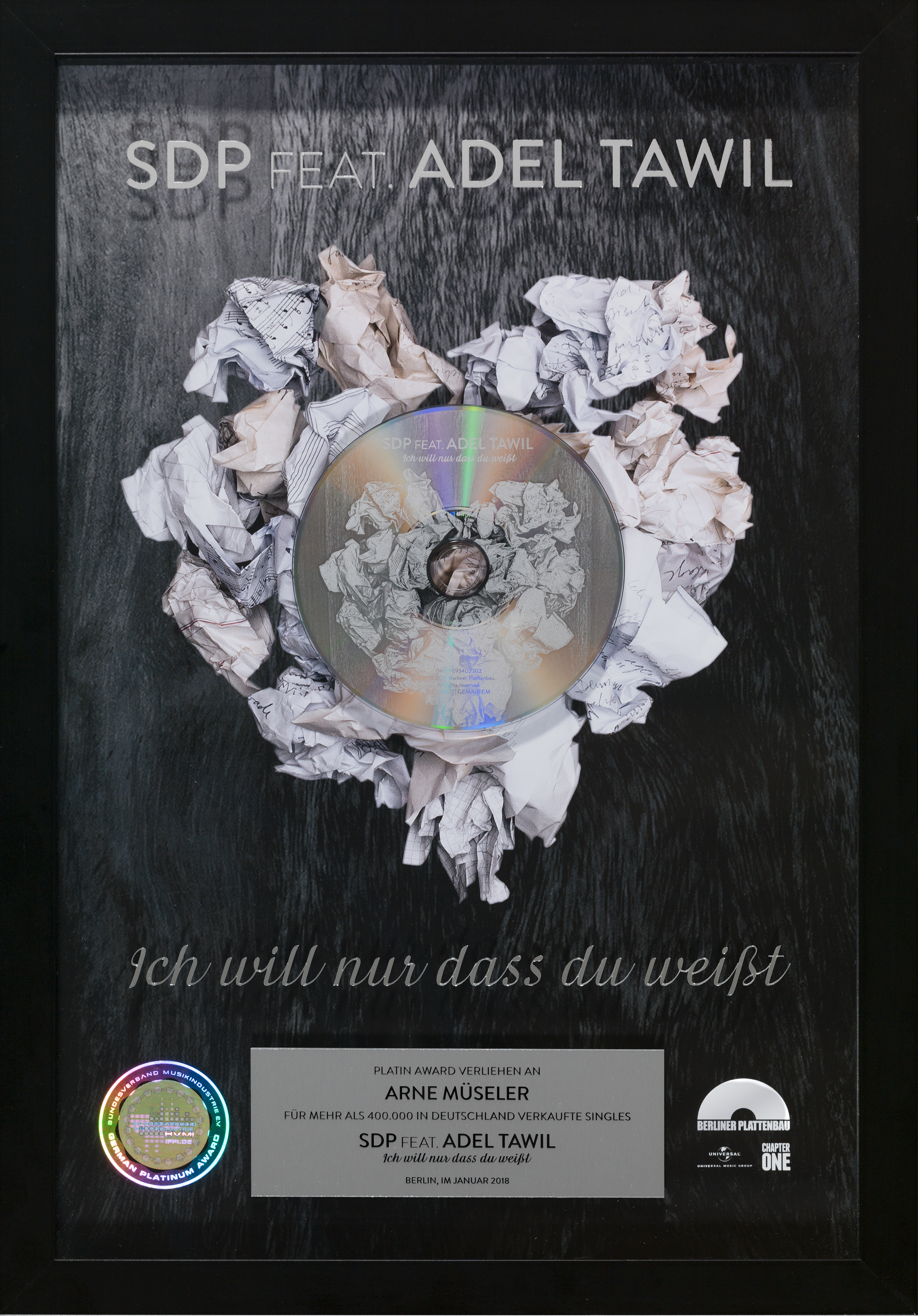 Platinum disc